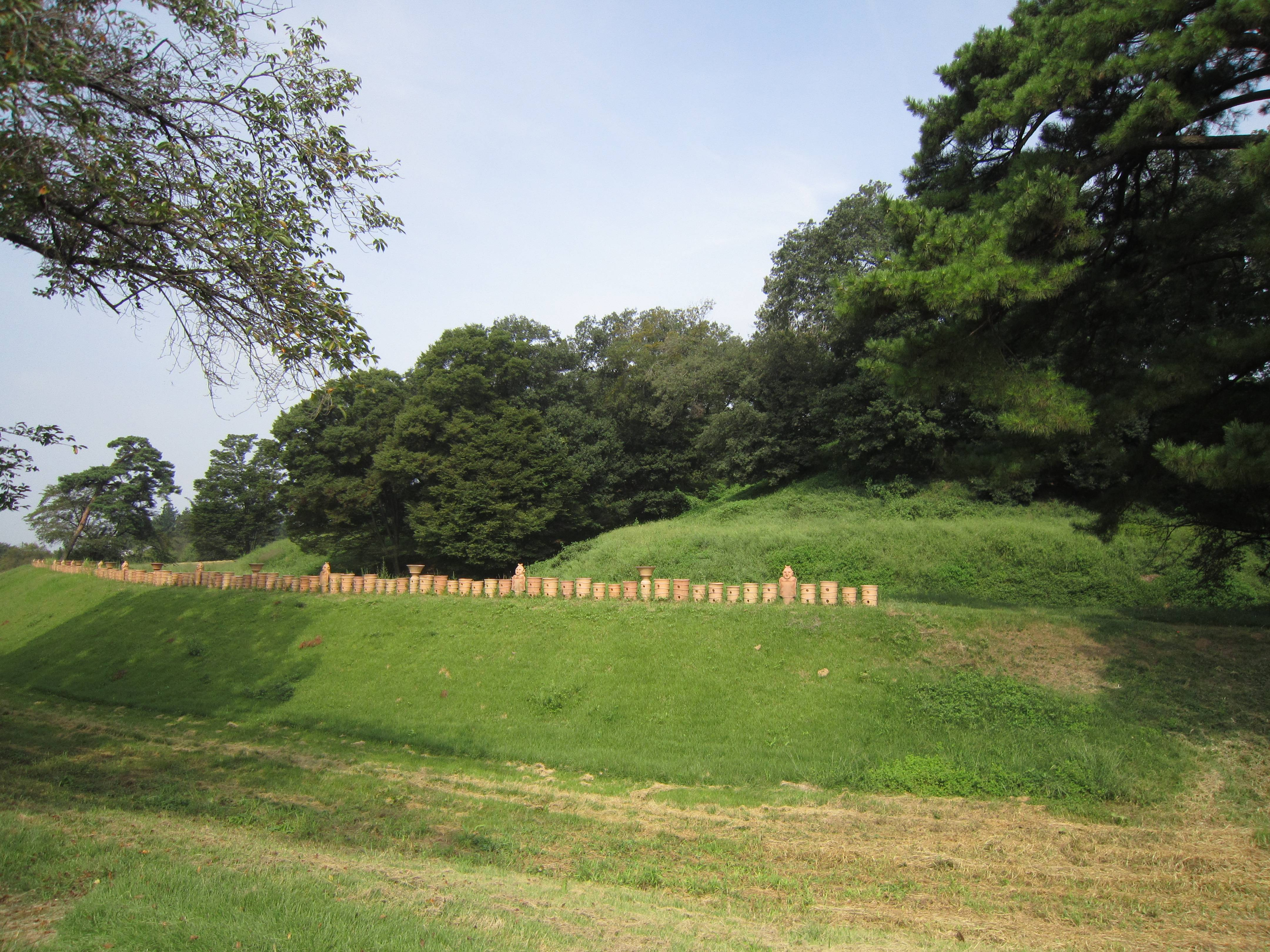 Omuro Park Nakafutago-kofun.